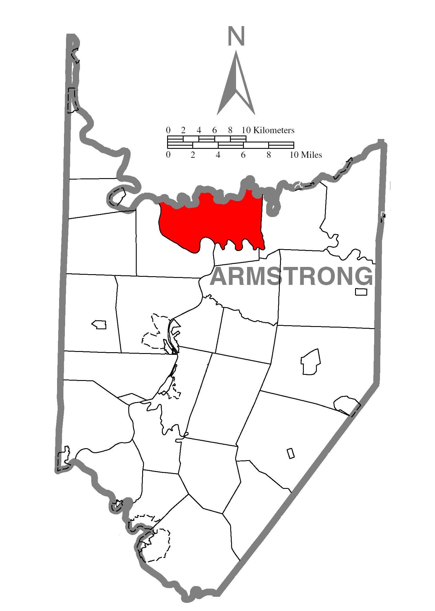 A map of Armstrong County showing Madison Township, Pennsylvania (alternate) highlighted on the map.